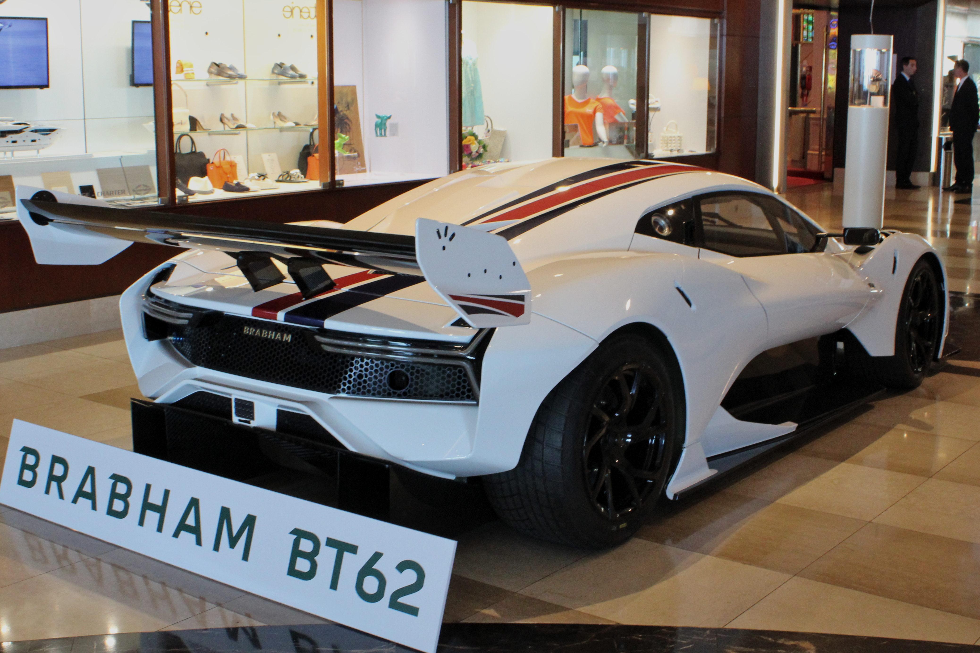 Brabham BT62 in Monaco